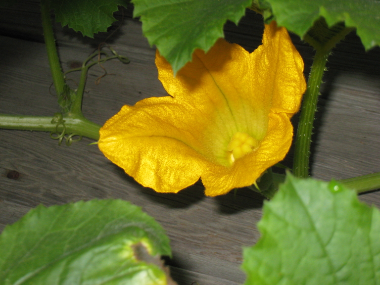 Front picture of a female spaghetti squash flower. The protosquash underneath the flower is visible.